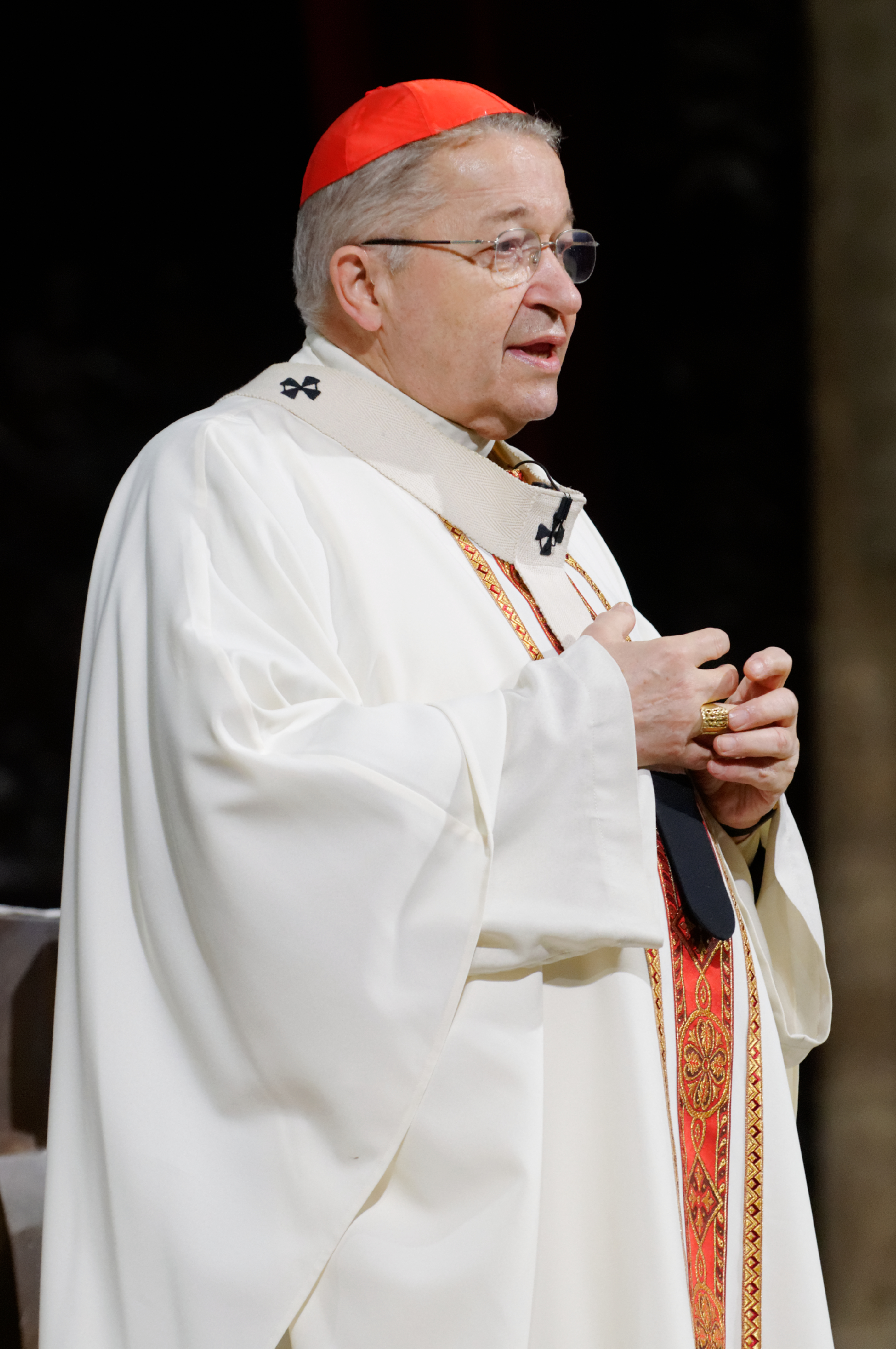 Mgr André Vingt-Trois welcomes the faithful. Île-de-France students' mass in Cathedral Notre Dame de Paris.